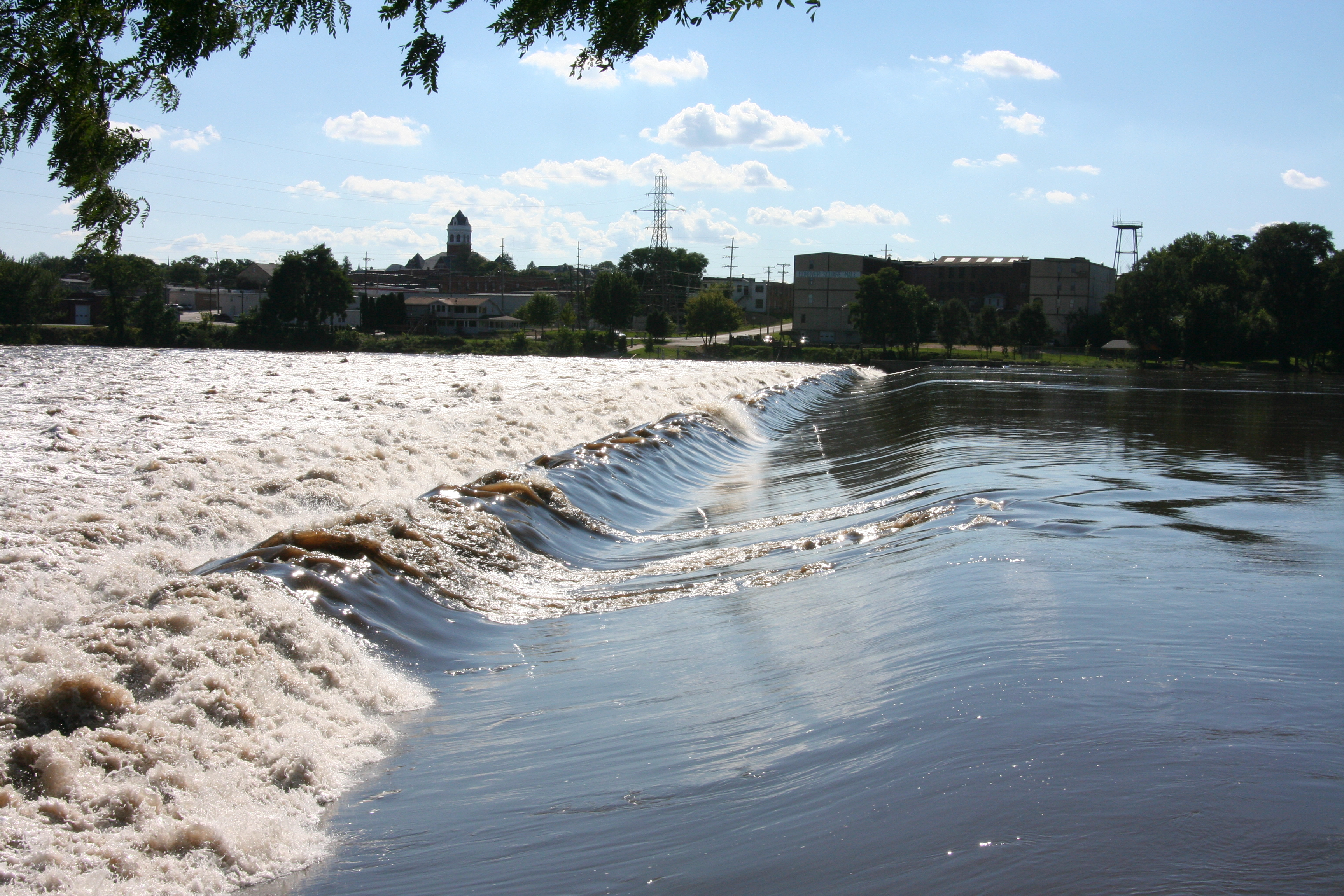 The Rock River flowing over the Oregon Dam in Oregon, Illinois, USA during the 2007 Rock River Flooding. See also Midwest flooding of 2007.